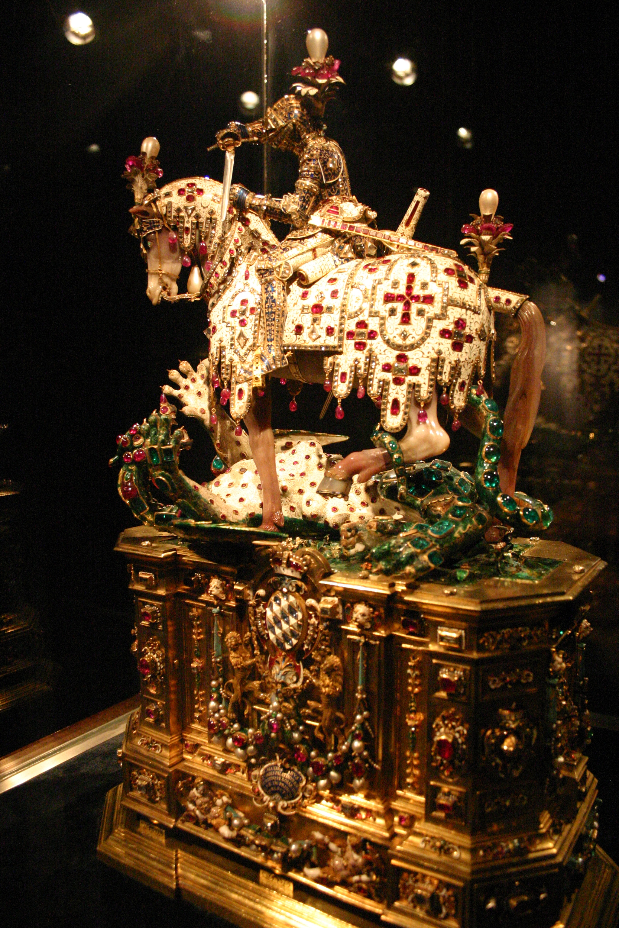 Renaissance Saint George's statue in the Treasury (Schatzkammer) of the Munich Residence.